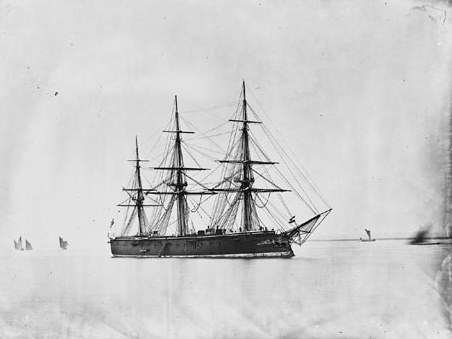 The German Ironclad König Wilhelm at Gravesend, England. Reproduction ID: G02065